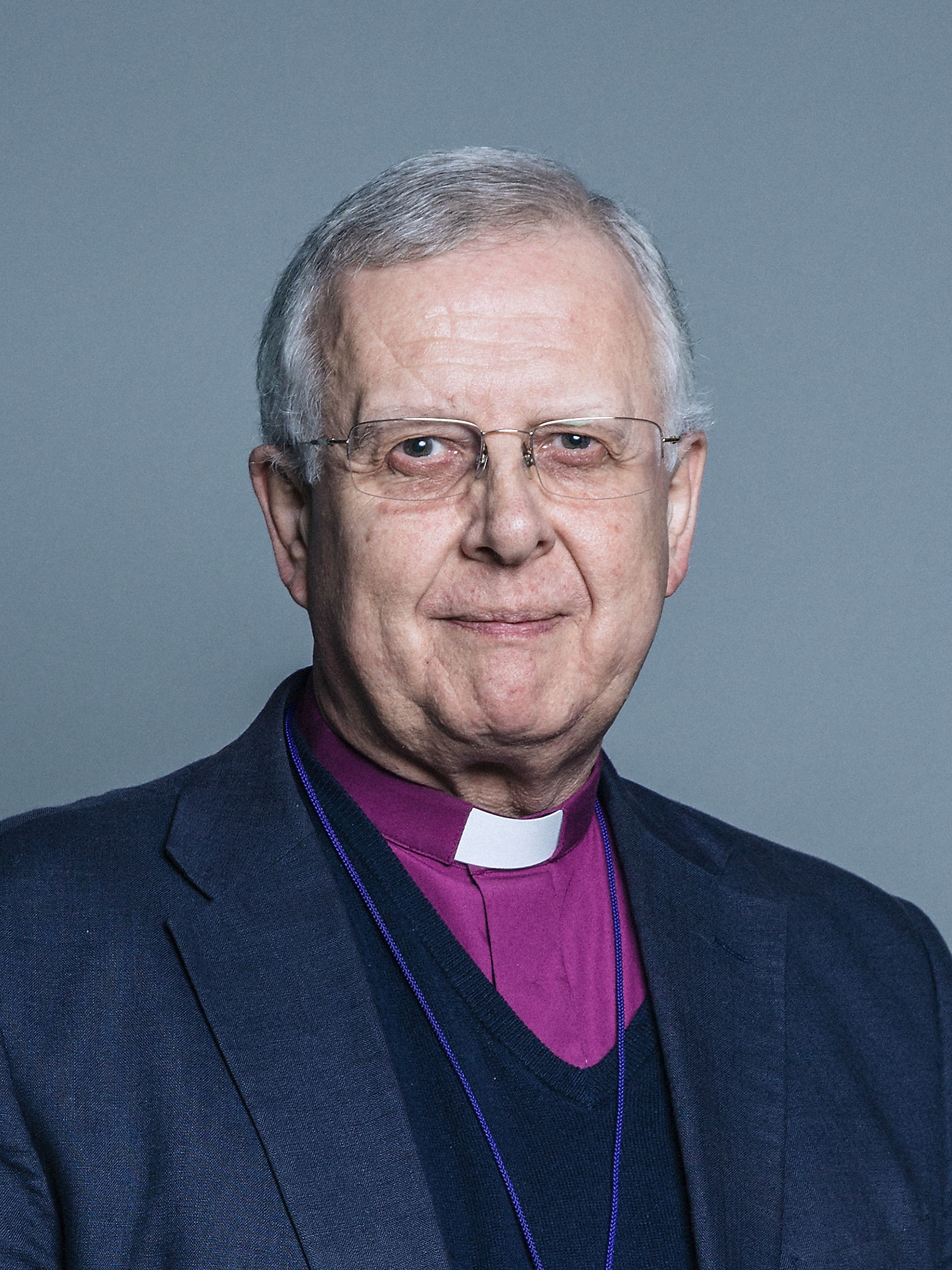 Official portrait of The Lord Bishop of Peterborough